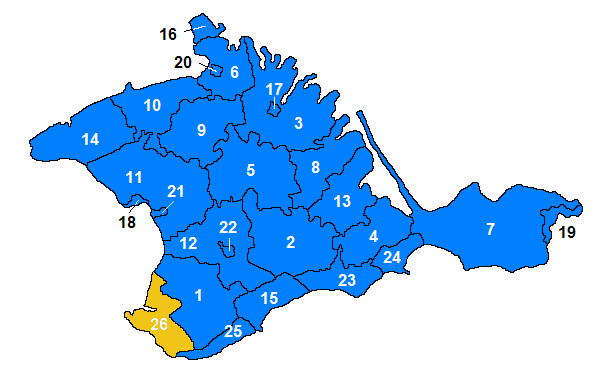 Administrative divisions of Crimea